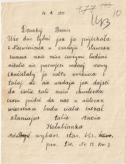 A letter from Hanna Hałubianka to Branisłaŭ Taraškievič written in Belarusian Łacnika. 1919. Беларуская (тарашкевіца): Ліст Ганны Галубянкі да Браніслава Тарашкевіча, напісаны лацінкай. 1919 год.